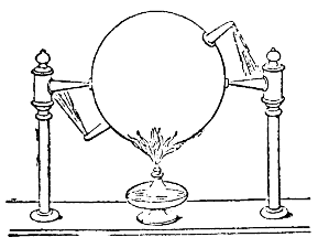 Hero's aeolipile